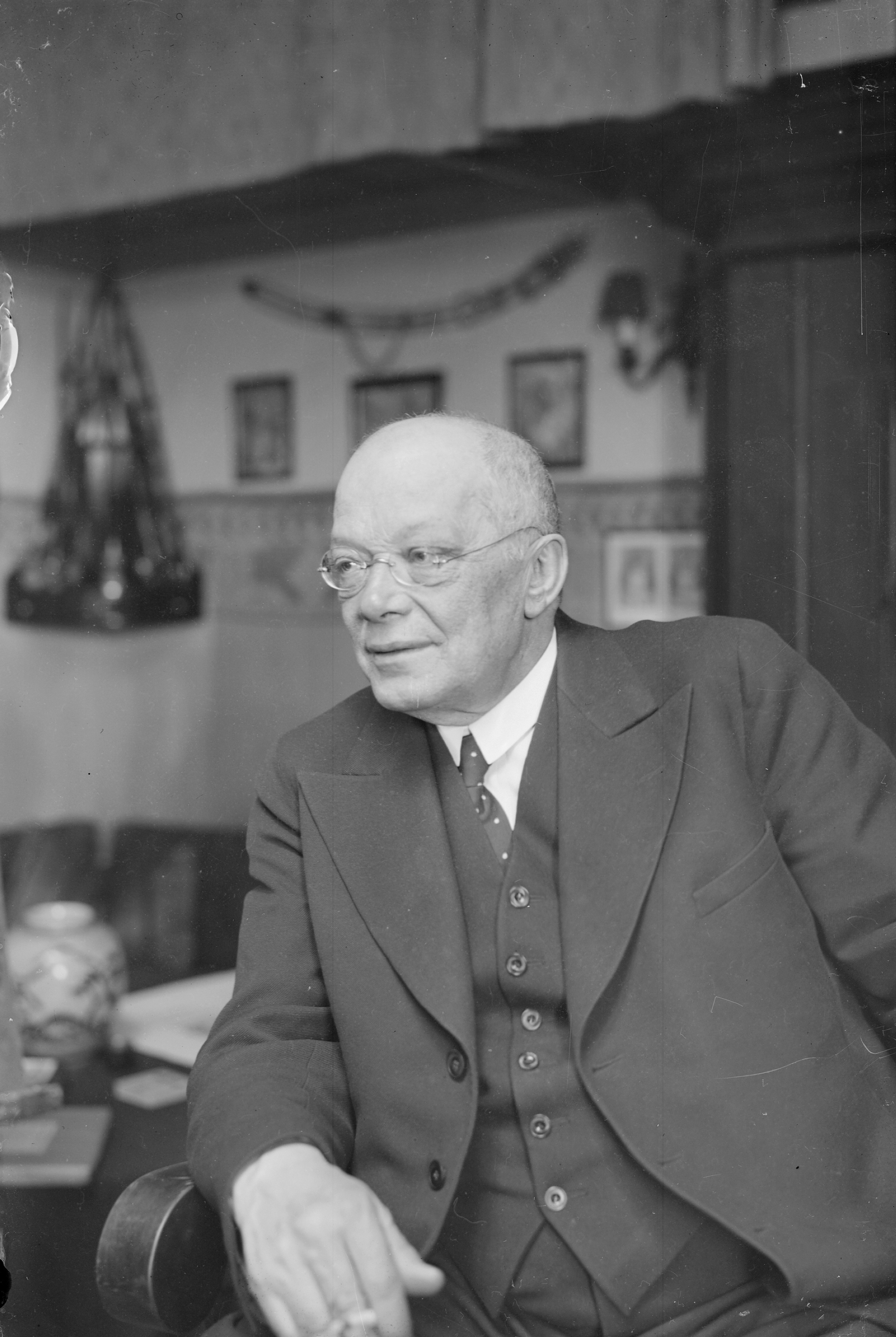 Photograph of the Finnish physician Akseli Koskimies (1869–1943).